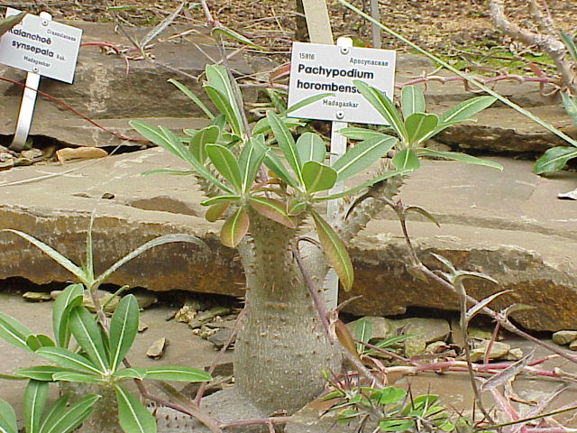 Species: Pachypodium horombense Family: Apocynaceae Image No. 1